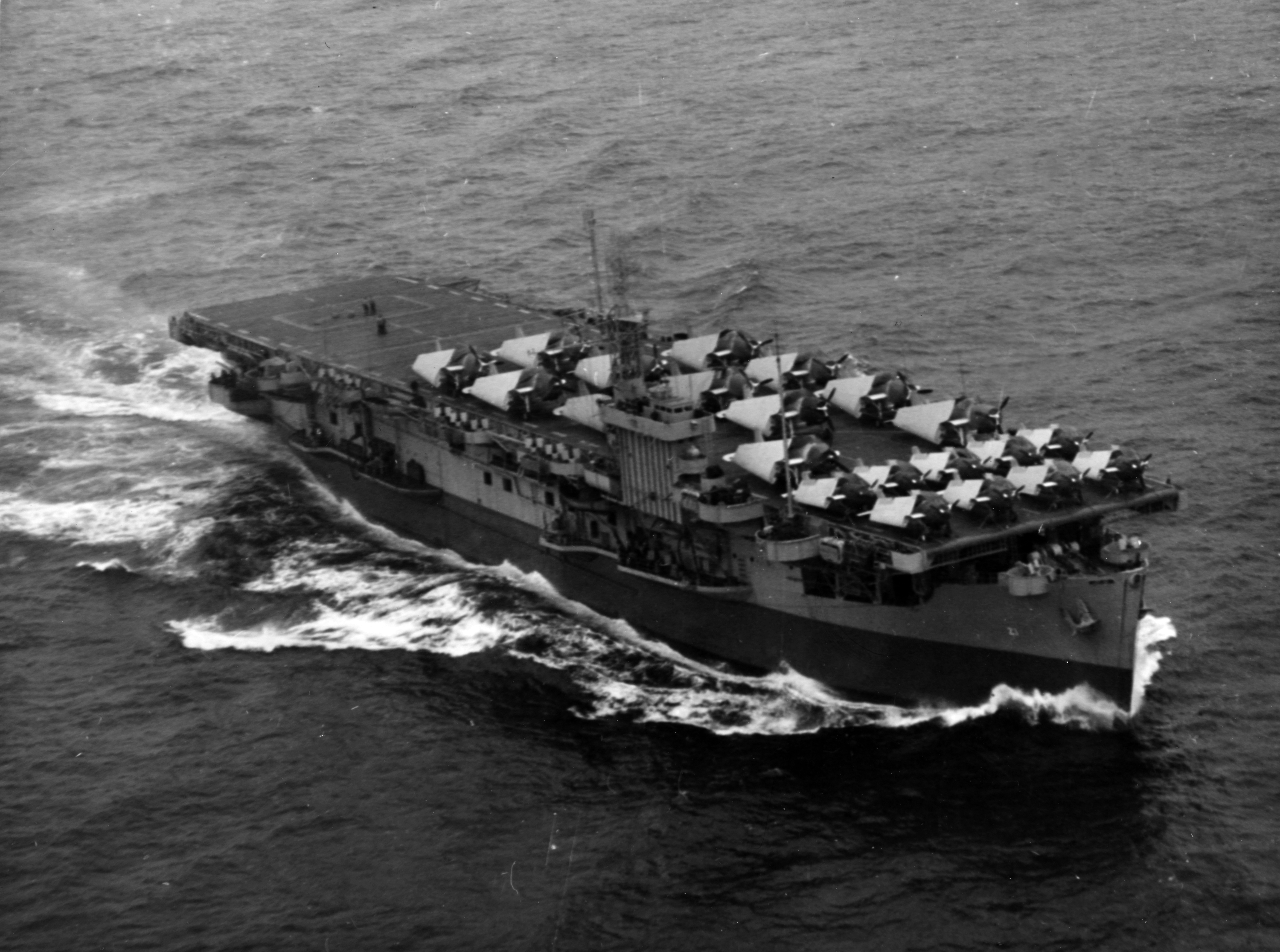 USS Block Island (CVE-21) shortly after leaving Norfolk, October 15, 1943, on her first anti-submarine cruise, with aircraft from Composite Squadron 1 (VC-1) on deck—9 FM-1 Wildcats (forward) and 12 TBF-1C Avengers.